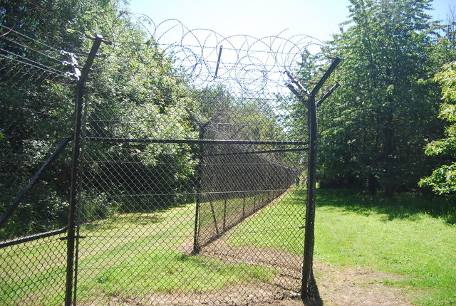 Originally constructed in 1892 as one of a ring of fortresses around London, Fort Halstead was to be manned by volunteers in the event of a crisis. The fort is located on the top of the North Downs. The base went on to become home to the Ministry of Supply, from which it became the headquarters of the Royal Armament Research and Development Establishment (RARDE).